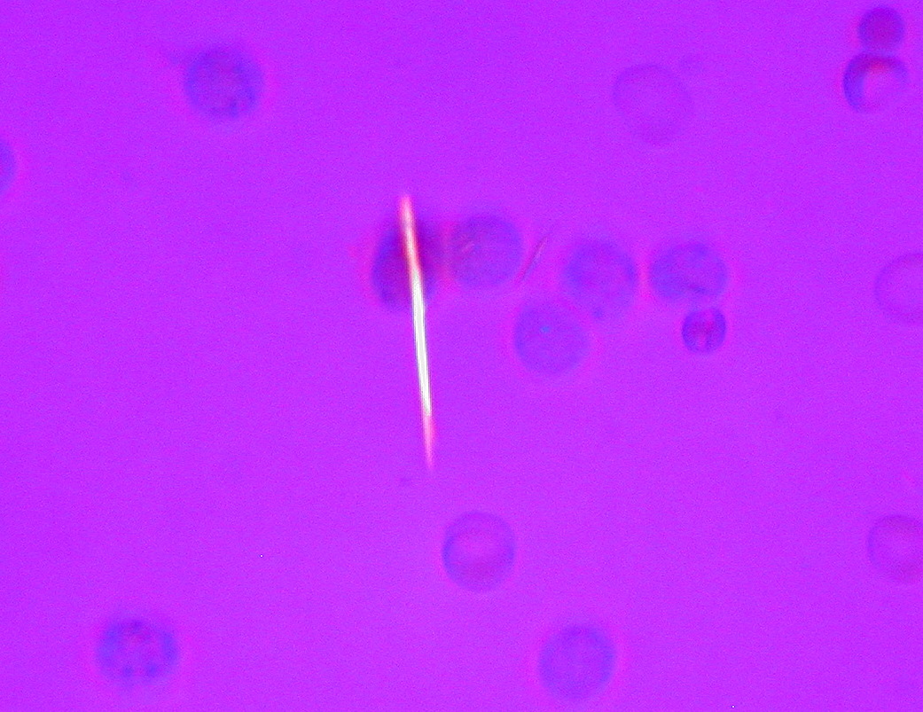 Gout: monosodium urate crystals in joint fluid 67 year old male; knee joint fluid with 81,600 neutrophils per microliter. 400X, compensated polarized microscopy